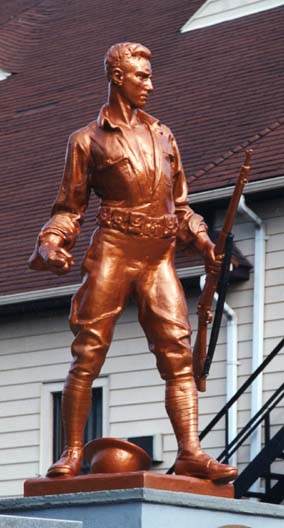 Fighting Doughboy by Pietro Montana (1921, this casting 1926), Wanaque War Memorial, Borough Hall, Wanaque, New Jersey.